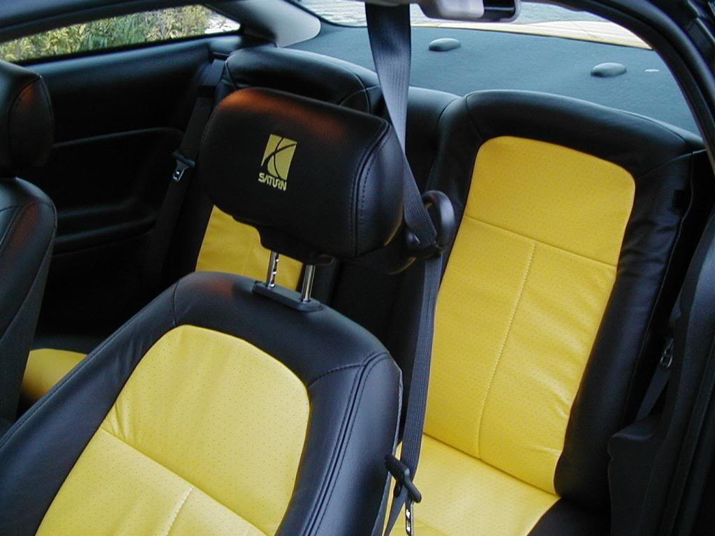 This is an interior shot of the Saturn Limited Edition SC2.